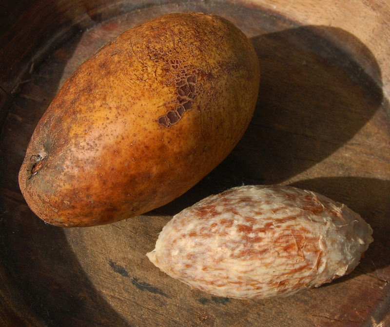 Mangifera kemanga fruit and seed. Bogor, West Java, Indonesia